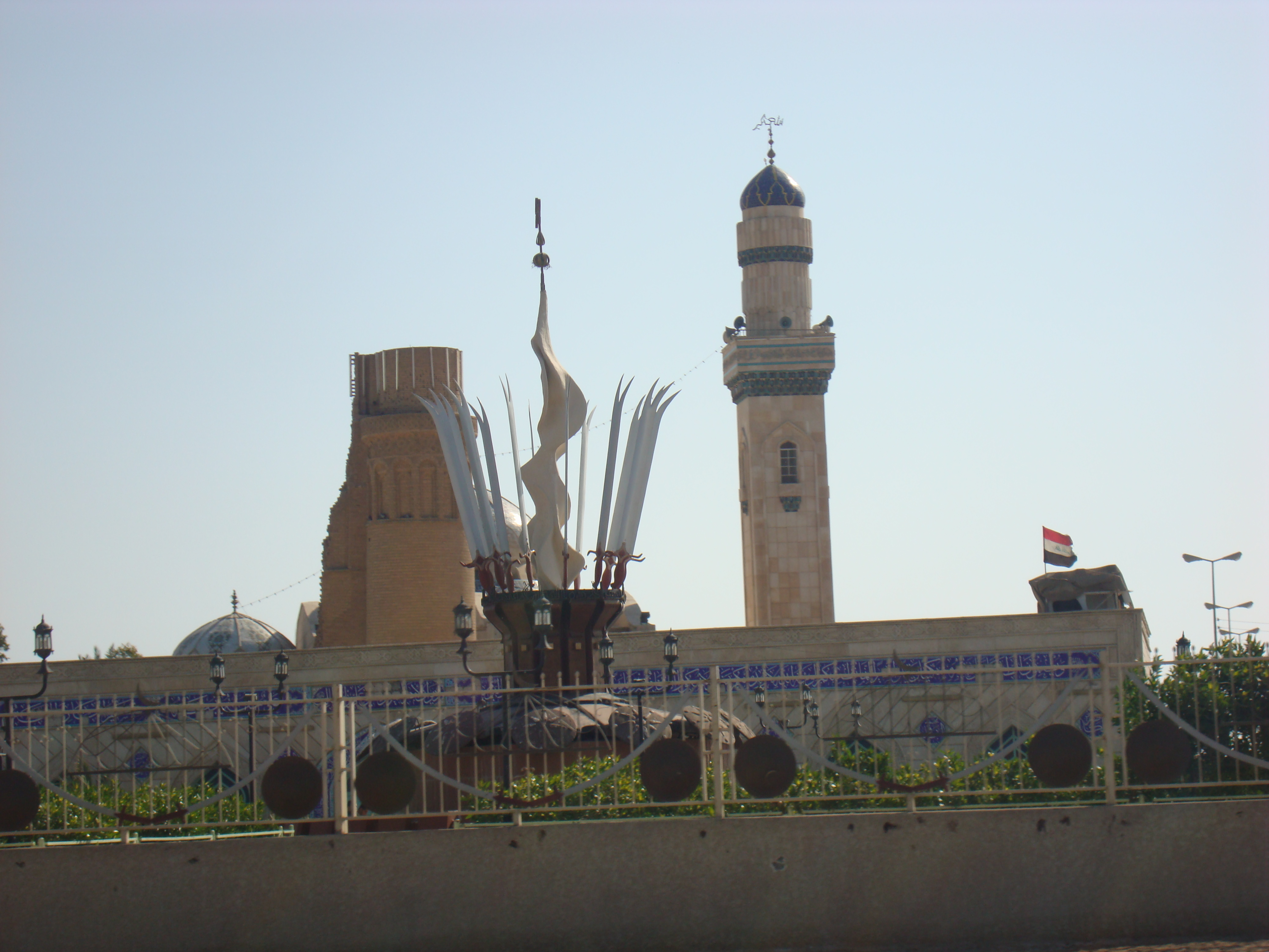 ali bin abitalib